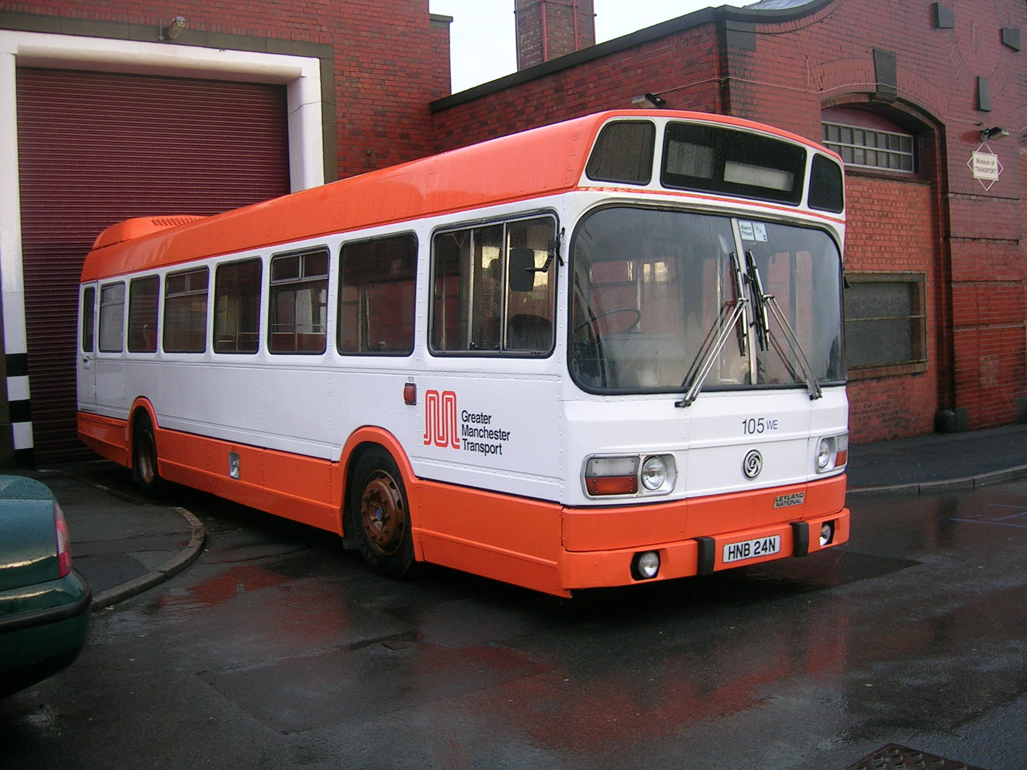 New to Greater Manchester Transport around 1974, this iconic bus is seen outside the Museum of Transport on Saturday 8th March 2008..and a clearer pic this time IMO